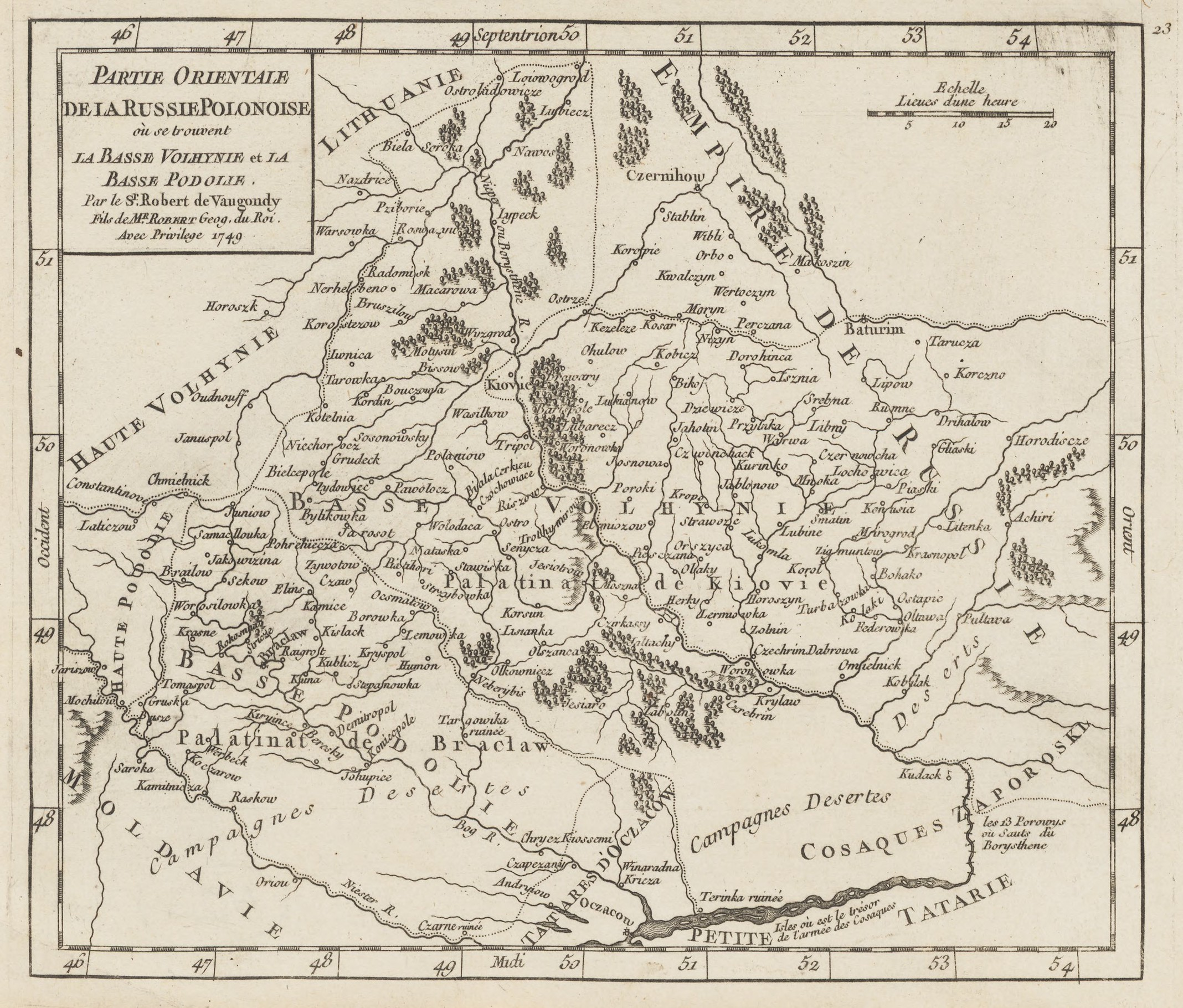 A map of "Eastern part of Polish Rus, where Lower Volhynia and Lower Podolia are located" ("Partie orientale de la Russie Polonoise, où se trouvent la Basse Volhynie et la Basse Podolie"). From: G. Robert de Vaugondy's Atlas portatif, universel et militaire, 1748. Published in France (probably in Paris) in 1749. Available also as a digital image through the Harvard University Library Web site. Electronic reproduction. Cambridge, Mass. : Harvard College Library Digital Imaging Group, 2008. Harvard Map Collection digital maps. Ukraine.